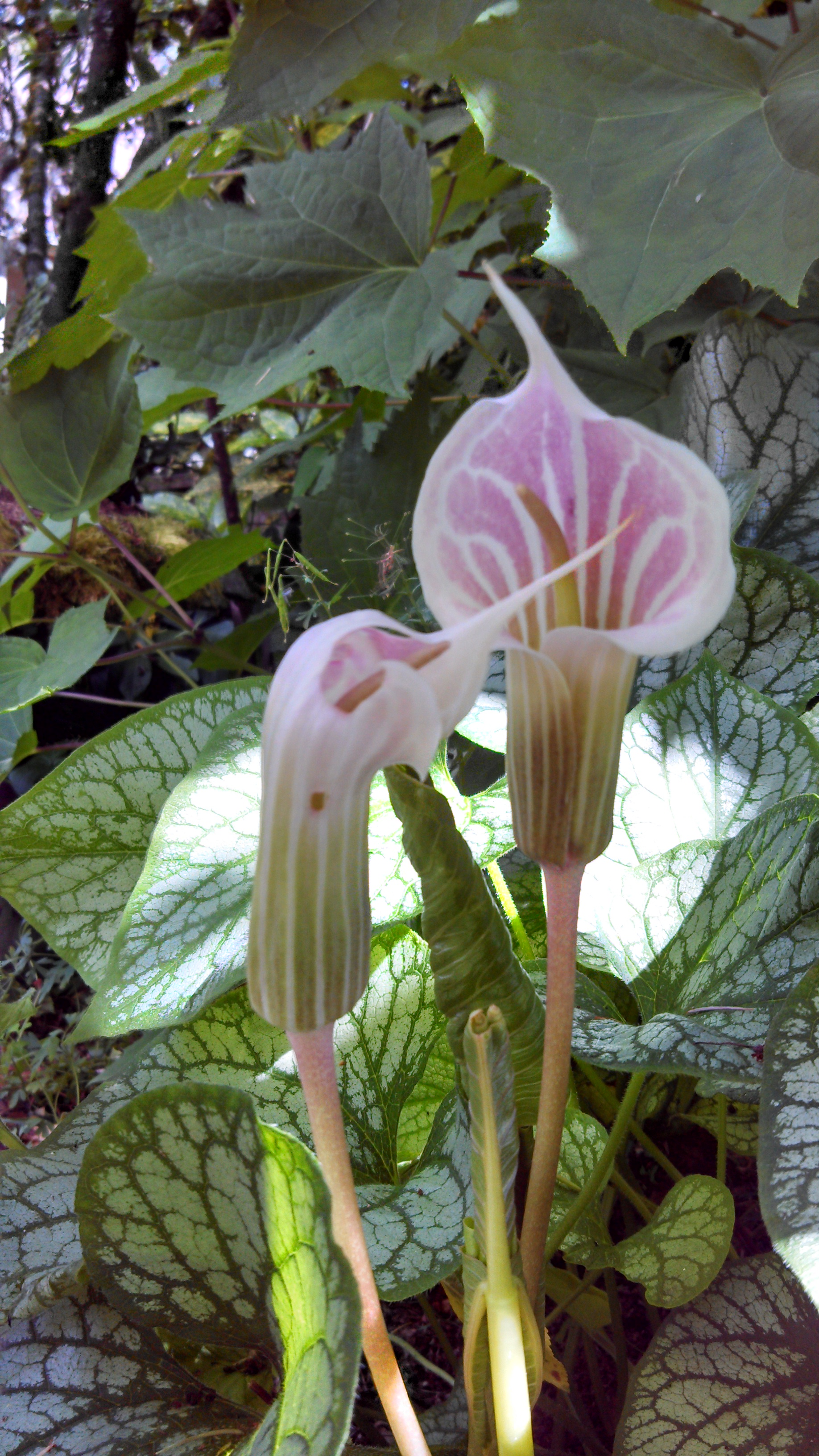 Arisaema candidissimum growing in our back garden